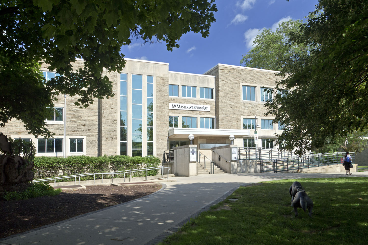 Front of the McMaster Museum of Art, McMaster University. Photographed by Bob McNair